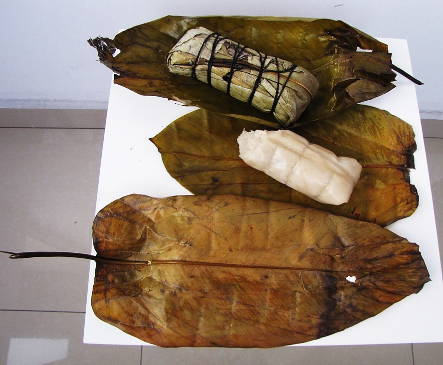 A cooked chikwangue, purchased from a Congo street vendor. Chikwangue is a popular starchy food from a recipe for cooking a roll of cassava dough (oftentimes called 'cassava bread') inside a multi-layered wrapping of large fresh leaves (about 7 leaves), tied snugly with palm fibers or string to hold steam inside during cooking. Here,top, shown the bundled chikwangue as sold ready-to-eat, also the uncovered roll of cooked cassava 'bread' The cooked wrap has been opened to display the shape of the large leaves used for this. (For scale: largest leaf here measures approx. 34 cm in length not including stem). After cooking, the leaves are discarded, not eaten. The distinct shape indicates these types of leaves come from either of these two plants (considered 'forest leaves') in Congo: Sarcophrynium arnoldianum/Megaphrynium macrostachyum. or Marantaceae - Haumania liebrechtsiana Chikwangue leaf wraps can also be made with banana leaves when these two species of leaves are not available.